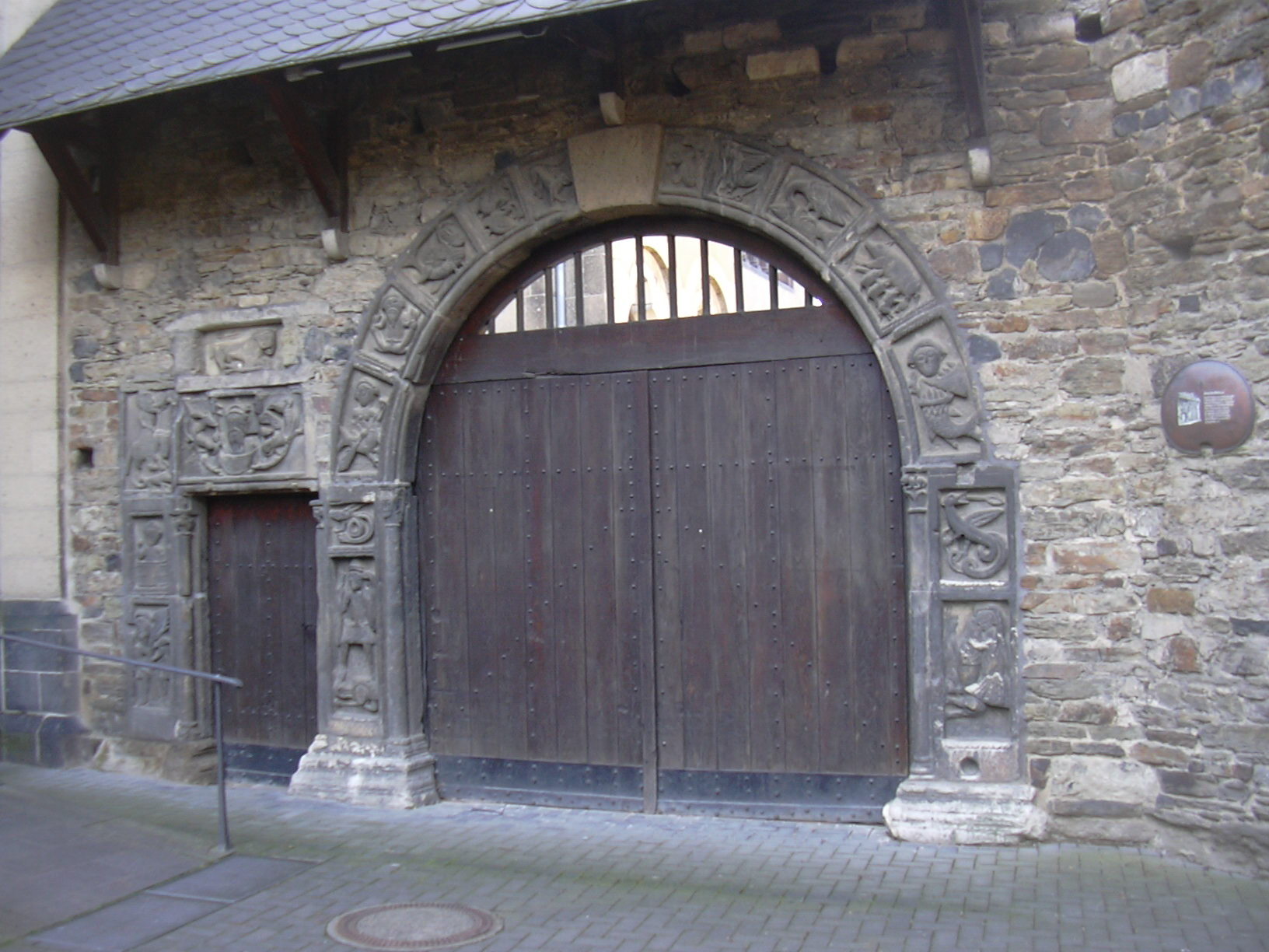 St. Peter and Paul, Remagen: Romanesque parish gate